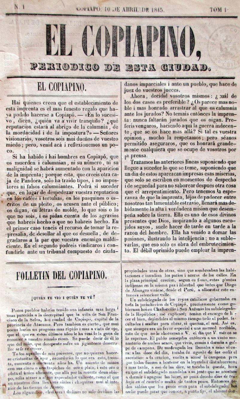 Frontpage of the first issue of El Copiapino, April 10th, 1845.